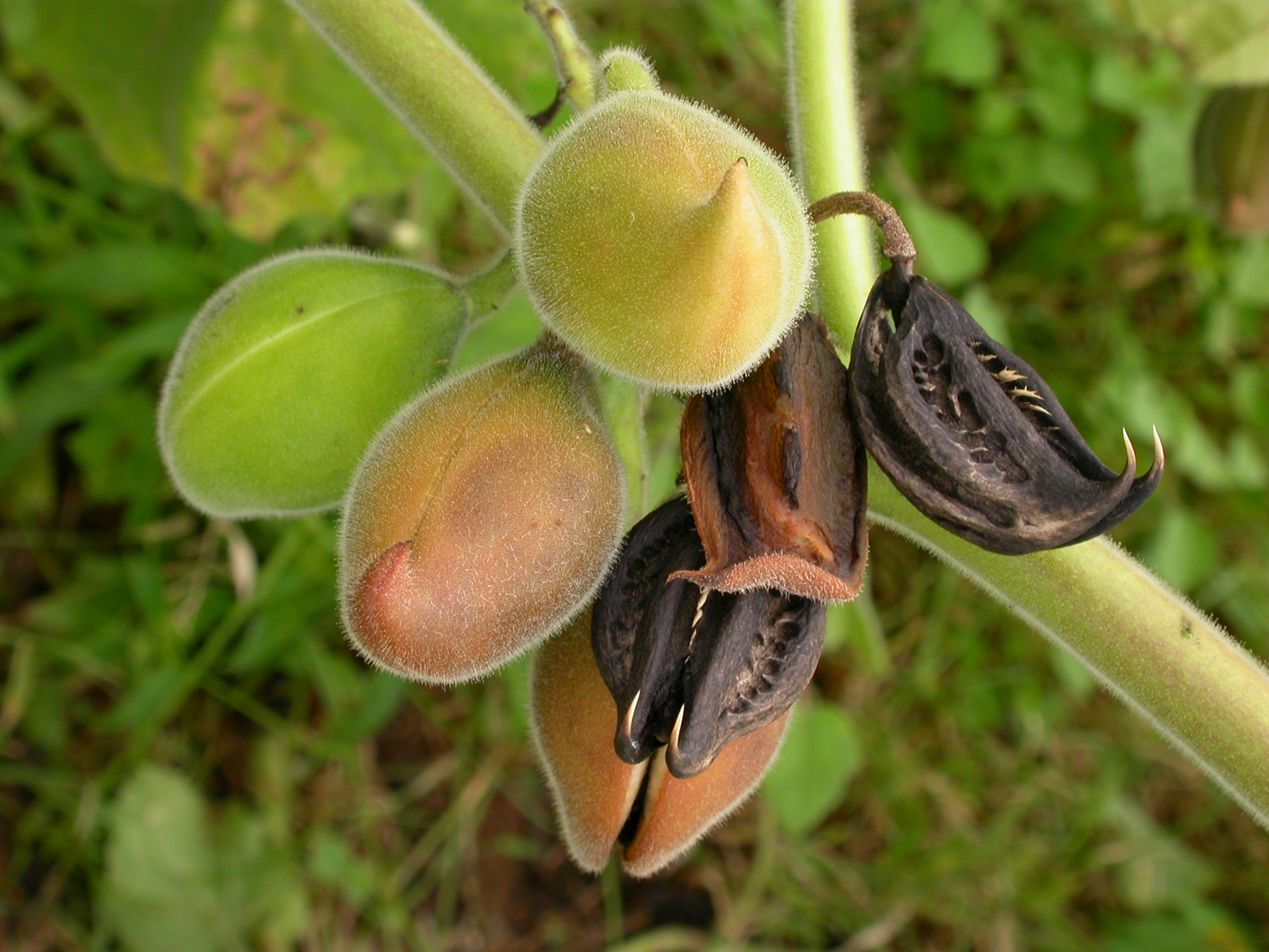 fruits of Martynia annua. near Léo, Burkina Faso.